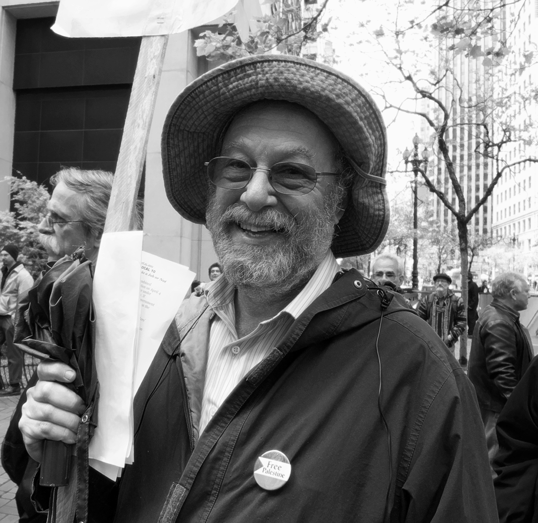 I, Robert Bruce Livingston, took this photo of Henry Norr on April 25, 2011 in San Francisco, California near 555 Market Street during a political rally in support of ILWU Local 10 actions on behalf of American workers. This Wikimedia Commons image was slightly modified with the GIMP (Gnu Image Manipulation Program) to make a color image black and white; to slightly blur the background, and to sharpen the foreground of the image-- for the purpose of trying to make it a truer image of the subject.